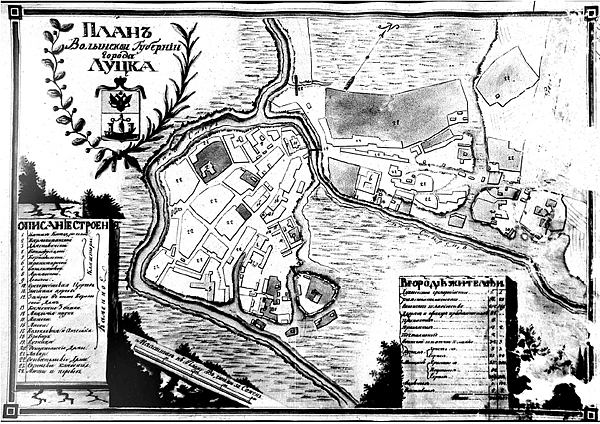 Map of Lutsk 1790s